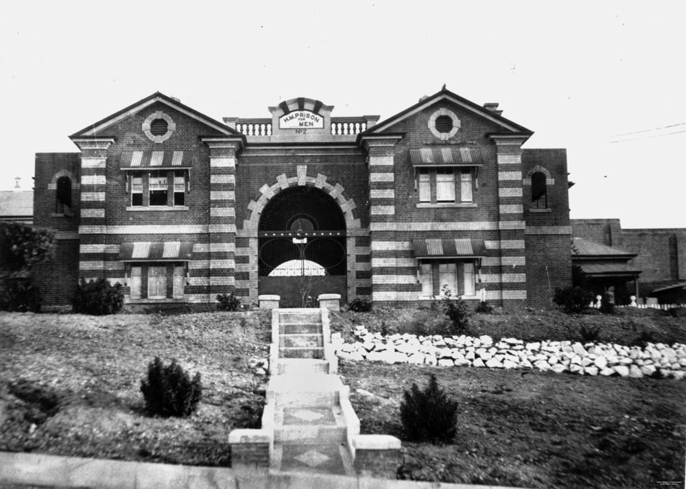 Entrance to Boggo Road Gaol, ca. 1936 Exterior view of the entrance to Boggo Road Gaol.